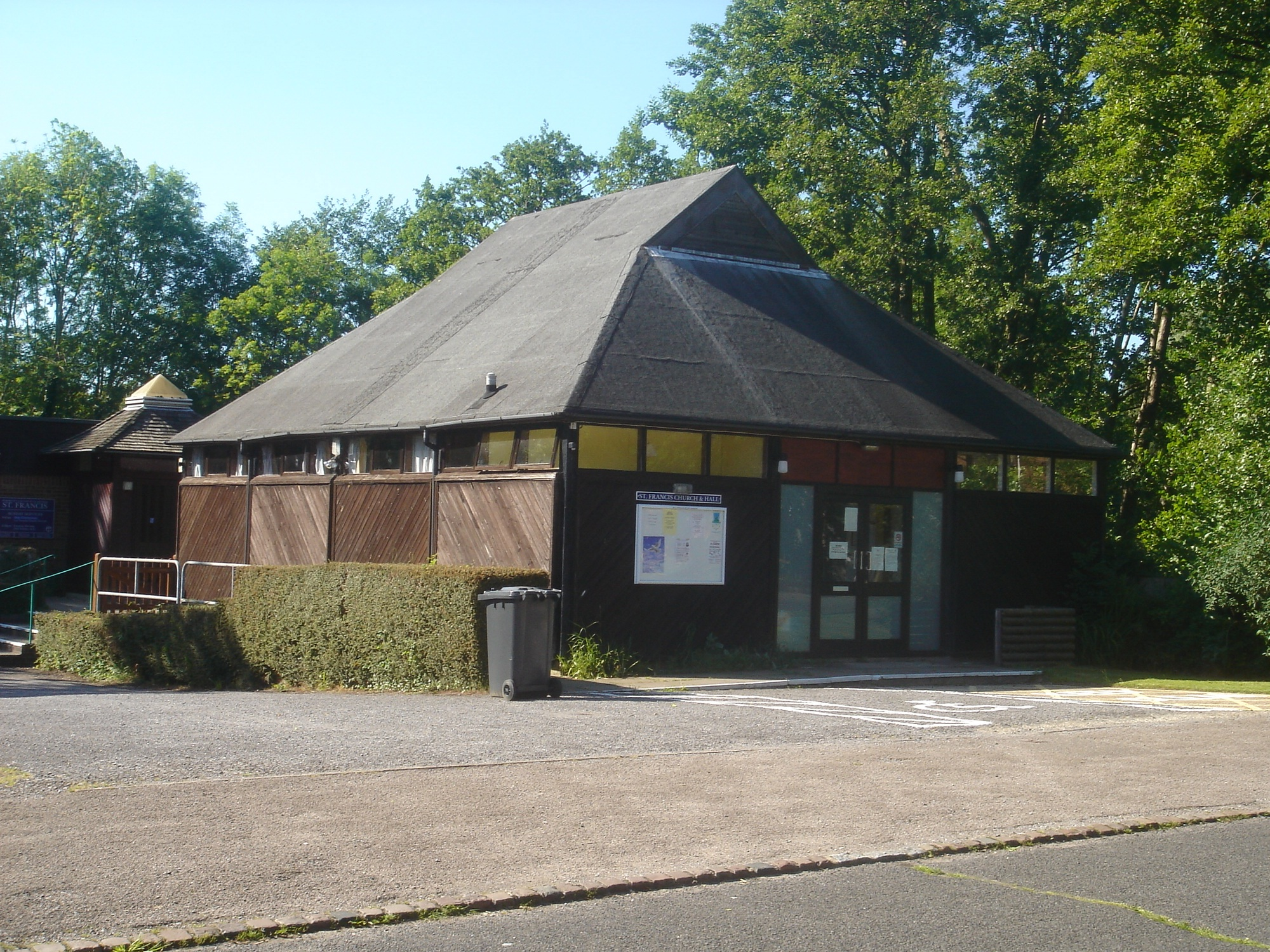 Church of St Francis of Assisi, Priory Road, Hassocks, District of Mid Sussex, West Sussex, England. Part of the Church of England parish of Clayton and Keymer.